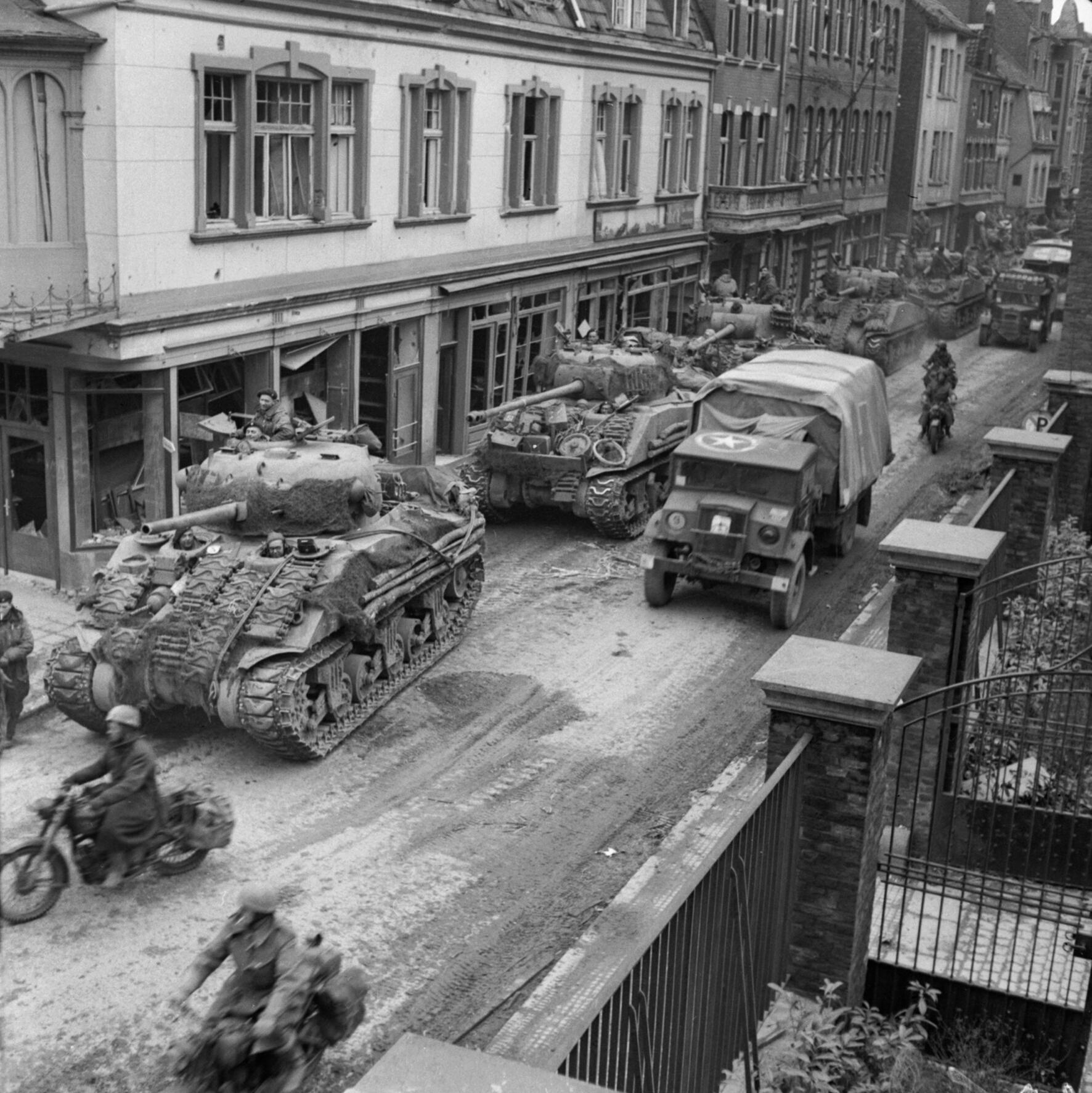 Sherman tanks and transport of 8th Armoured Brigade moving through Kevelaer, Germany, 4 March 1945. Sherman tanks and transport of 8th Armoured Brigade moving through Kevelaer, 4 March 1945.